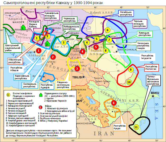 Republics that were proclaimed either by local authorities or by national (ethnic) congresses. Not necessarily effectively controlled claimed territory: some of them did, others not. Most were proclaimed in autumn 1991 and disappeared soon after, others became states with limited recognition or were recognised as autonomous regions. Sources: Маркедонов, Сергей Мирославович. ДЕ-ФАКТО ГОСУДАРСТВА ПОСТСОВЕТСКОГО ПРОСТРАНСТВА: ВЫБОРЫ И ДЕМОКРАТИЗАЦИЯ // Вестник Евразии Выпуск № 3, 2008 Новицкий Игорь Яковлевич. Управление этнополитикой Северного Кавказа Background map by